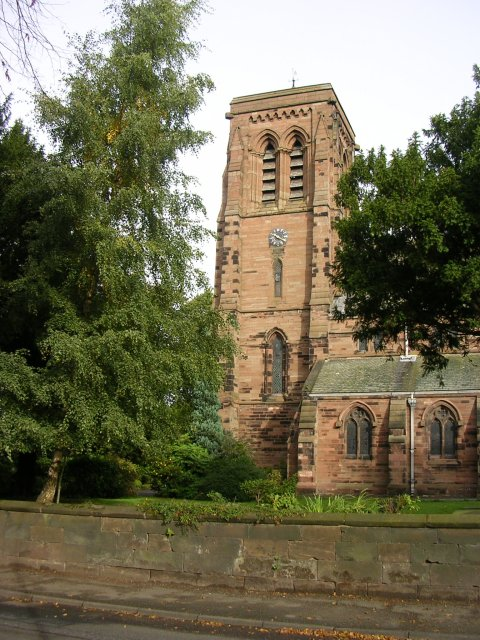 Photograph